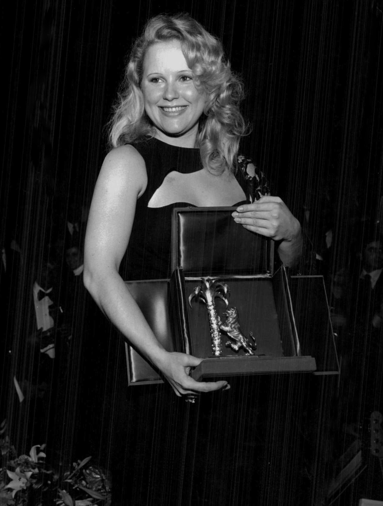 The Italian singer Gilda (Rosangela Scalabrino) showing the award to the winner of the 25th Sanremo Music Festival.